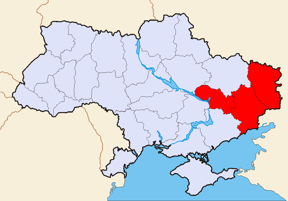 Parts of Ukraine starved of gas according to Ukraine if a proposed pipeline is used by Gasprom to transport gas to the Balkan would be used during the Russia–Ukraine gas dispute 2009